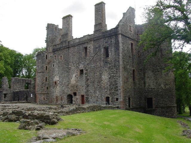 Huntly Castle, view from rear of site. Facing South-East